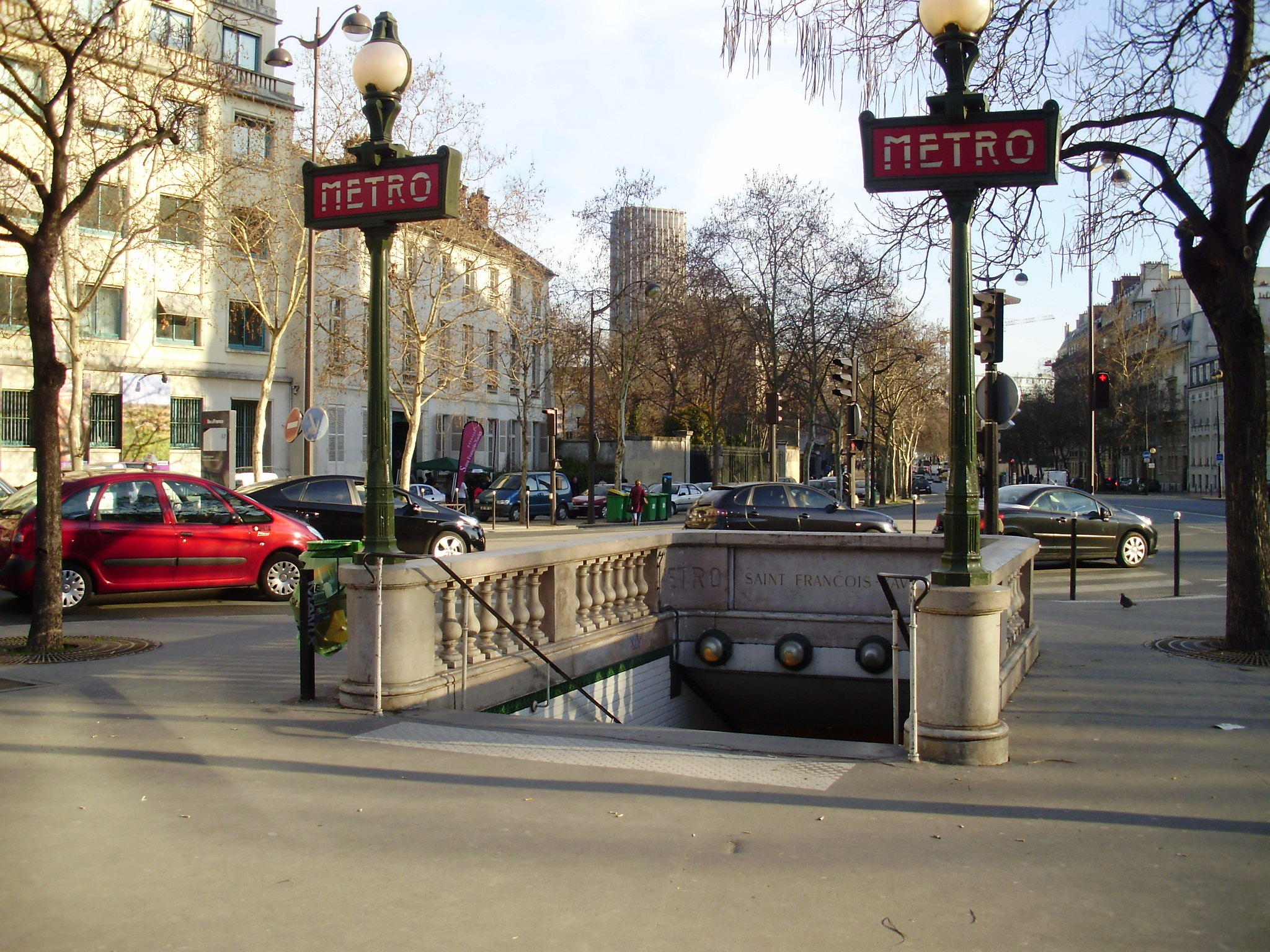 Saint-François-Xavier (entrance of the undergound station), Paris, France